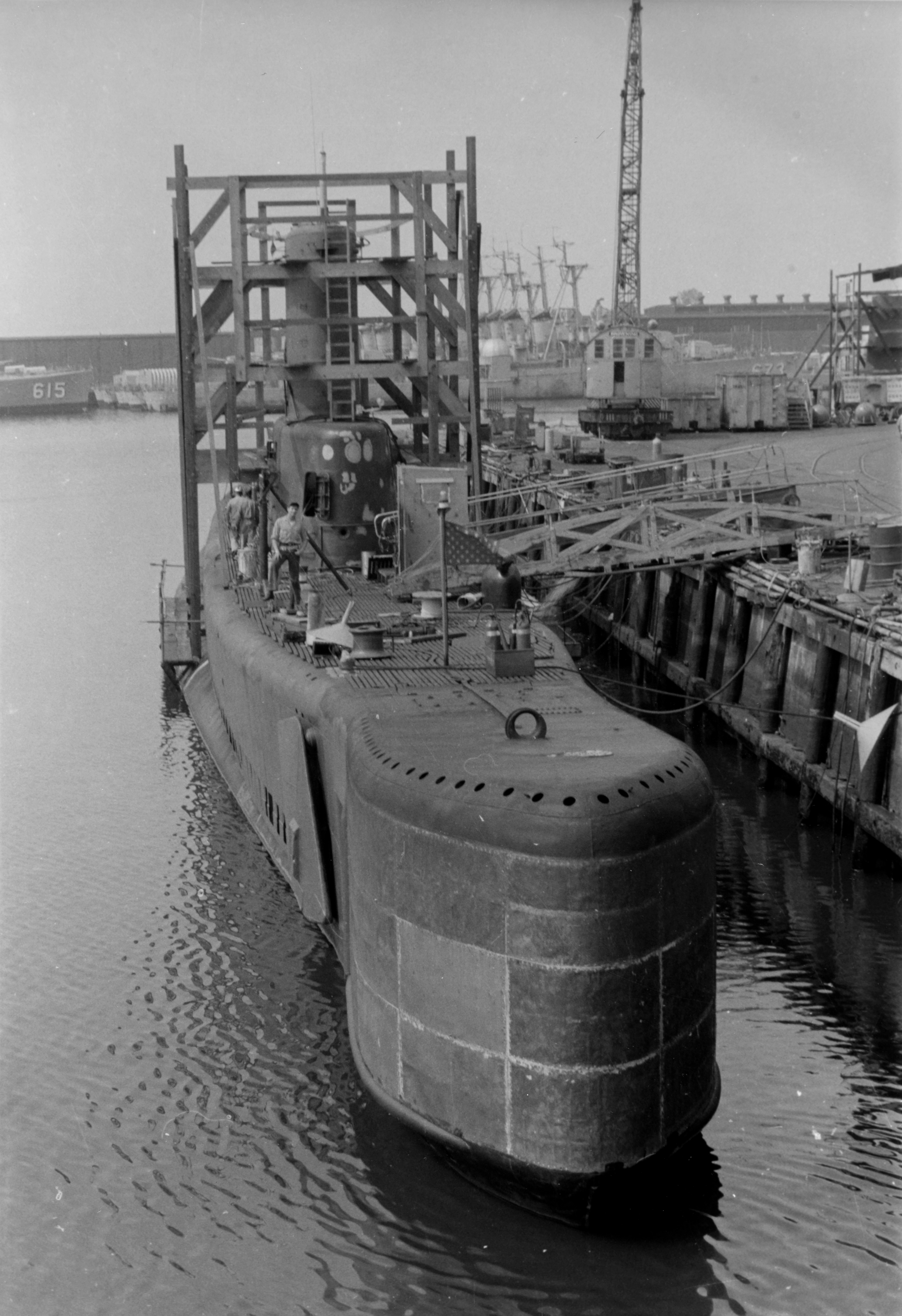 The U.S. Navy submarine USS Angler (SS-240) undergoing refit, probably at the Philadelphia Naval shipyard, circa 1962. Destroyers laid up in distance include: USS Hickox (DD-673) and USS McLanahan (DD-615).